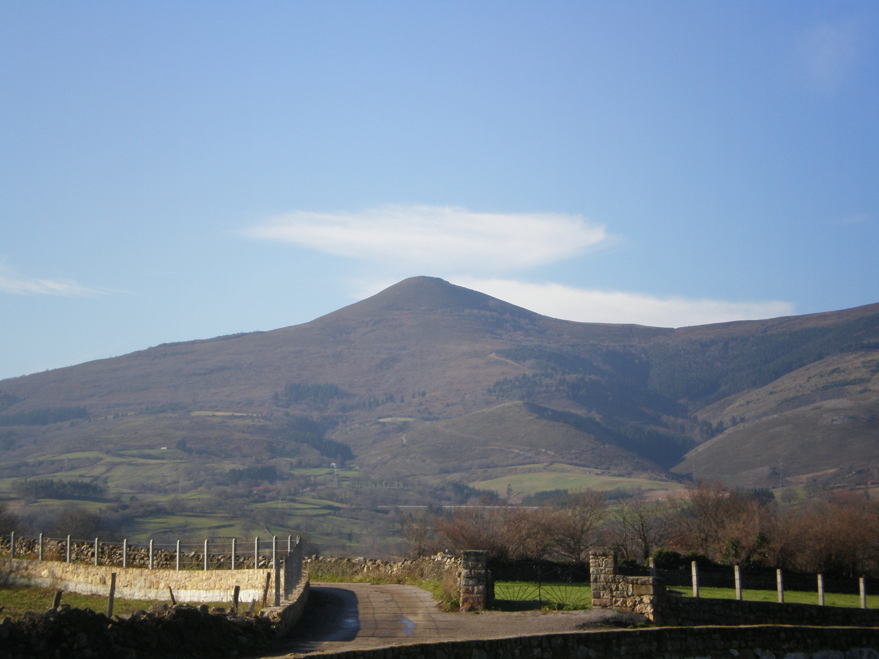 Navajos Peak from Silió. Mountain of 1064 metres, limit between the Cantabrian municipalities of Arenas de Iguña and Molledo.